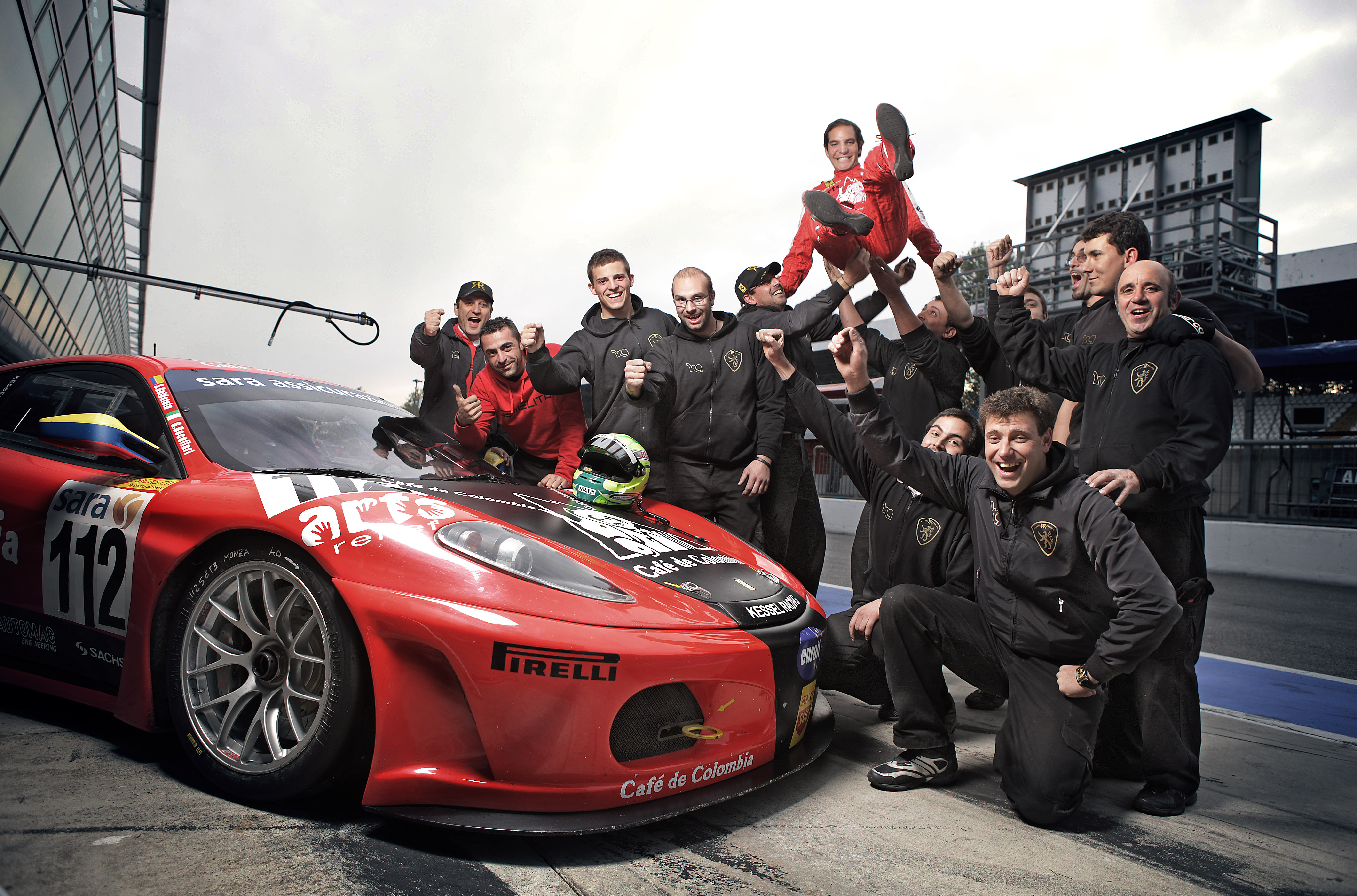 Steven Goldstein after winning a championship in Monza, Italy